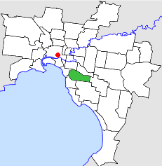 Location of the City of Caulfield within Melbourne.